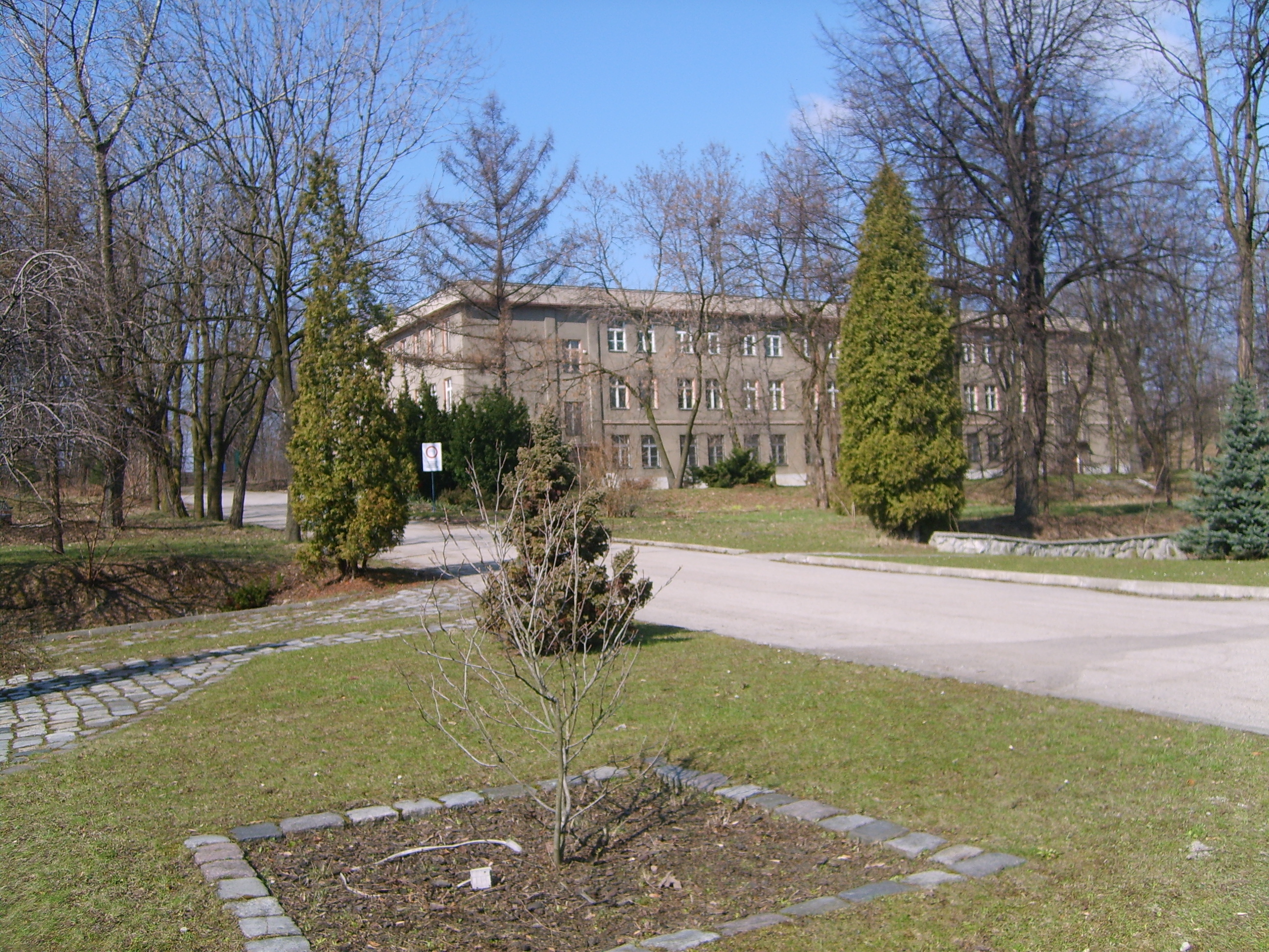 The State Archives in Katowice.